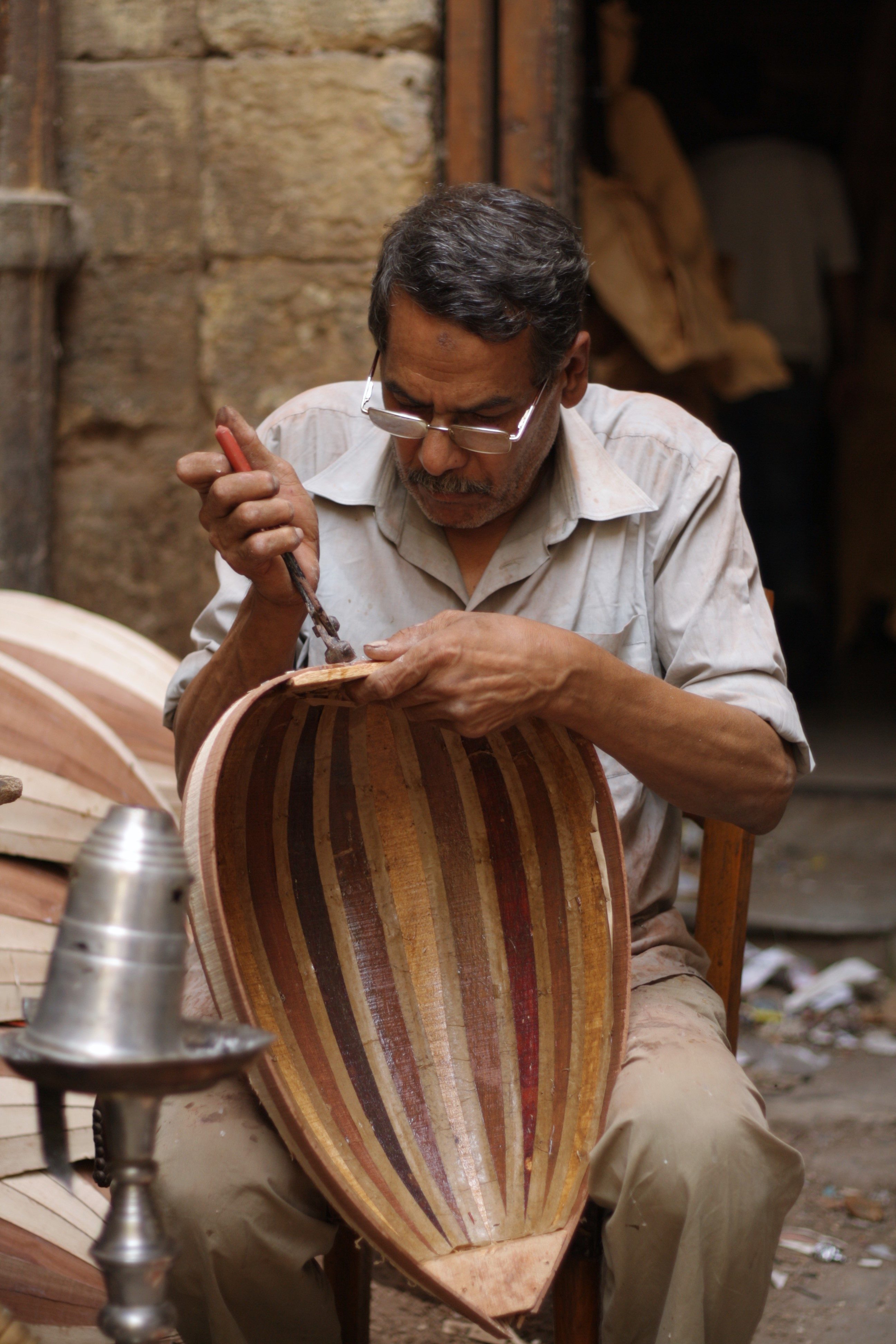 This is an image from Egypt